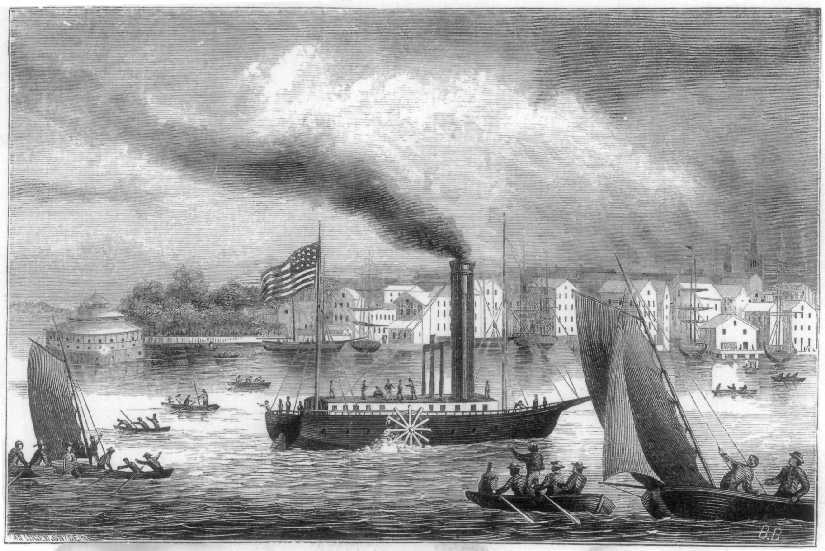 Clermont illustration - Robert Fulton from Project Gutenberg eText 15161.jpg. Chapter XIII Robert Fulton "Consternation at the sight of Fulton's monster." "It was in the early autumn of the year 1807 that a knot of villagers was gathered on a high bluff just opposite Poughkeepsie, on the west bank of the Hudson, attracted by the appearance of a strange, dark-looking craft, which was slowly making its way up the river. Some imagined it to be a sea-monster... It had been supposed that Fulton's object was to produce a steamer capable of navigating the Mississippi River, and much surprise was occasioned by the announcement that the "Clermont" was to be permanently employed upon the Hudson. She continued to ply regularly between New York and Albany until the close of navigation for that season, always carrying a full complement of passengers, and more or less freight. During the winter she was overhauled and enlarged, and her speed improved. In the spring of 1808 she resumed her regular trips, and since then steam navigation on the Hudson has not ceased for a single day, except during the closing of the river by ice." Author James D. McCabe, Jr. Illustration by G. F. and E. B. Bensell.